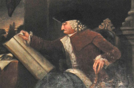 Detail of a portrait of James Oglethorpe (1696-1785)